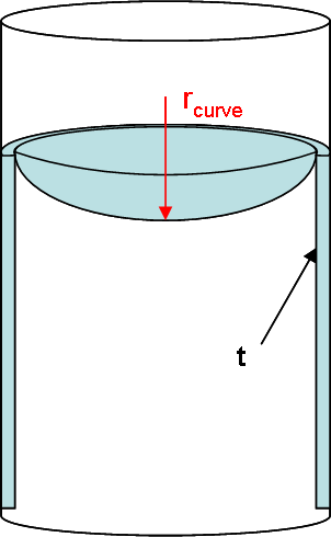 This image describes the statistical film thickness as it applies to capillary condensation.